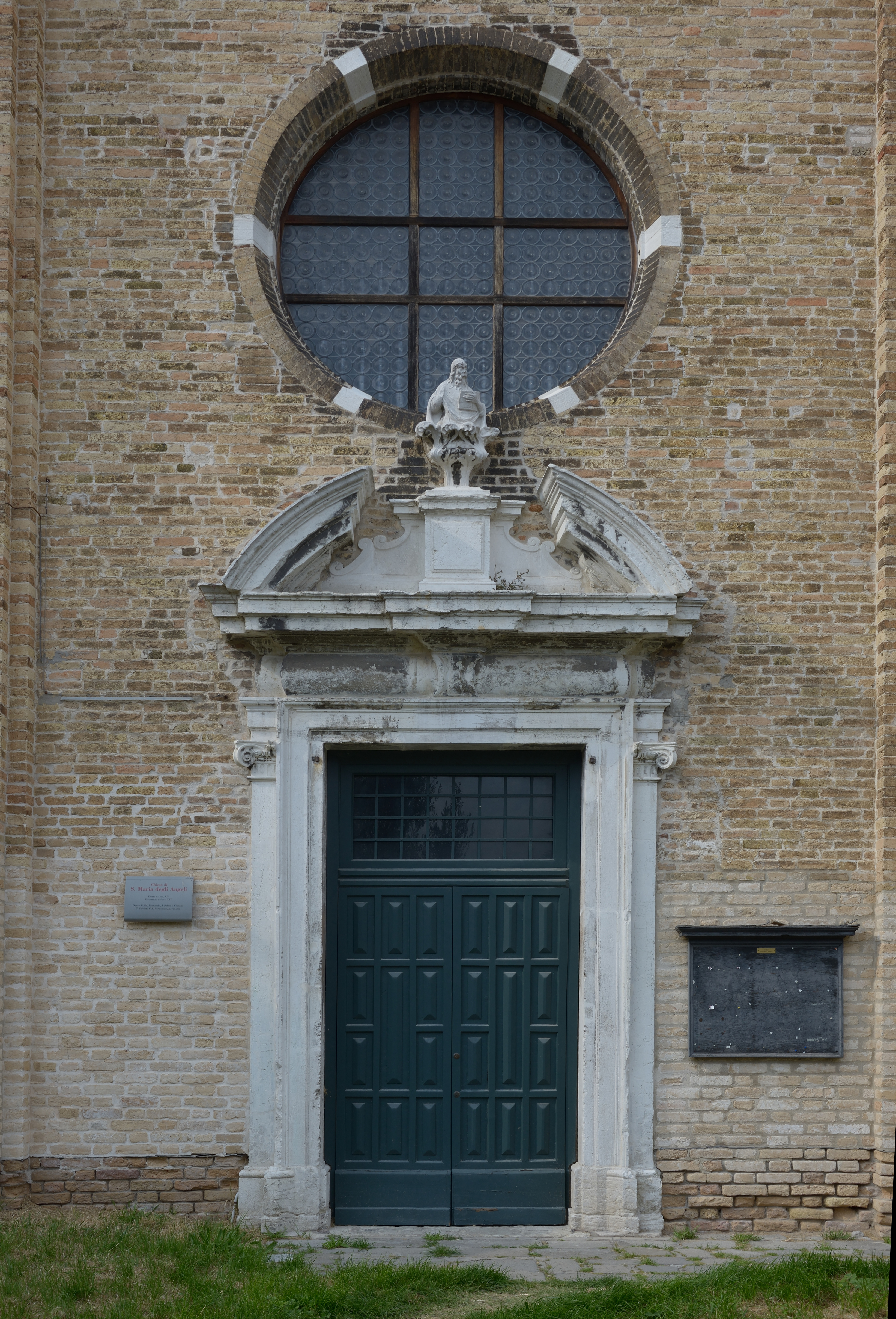 Portal on the main facade of the Chiesa di Santa Maria degli Angeli church in Murano, Venice.